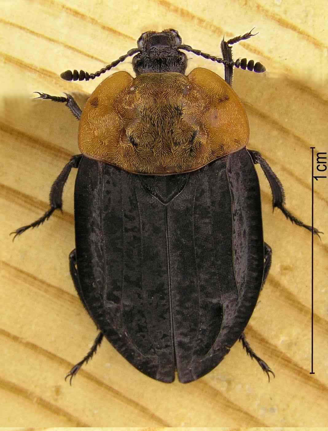 Oiceoptoma thoracicum, found on a dead hedgehog by the side of the road, Netherlands, Flevopolder, roggebotzand, 5-V-2005 det, leg & Photo E van Herk.